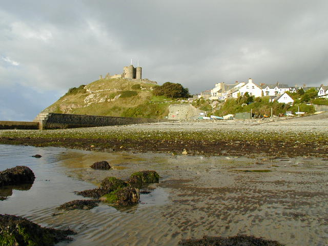 Criccieth Castle